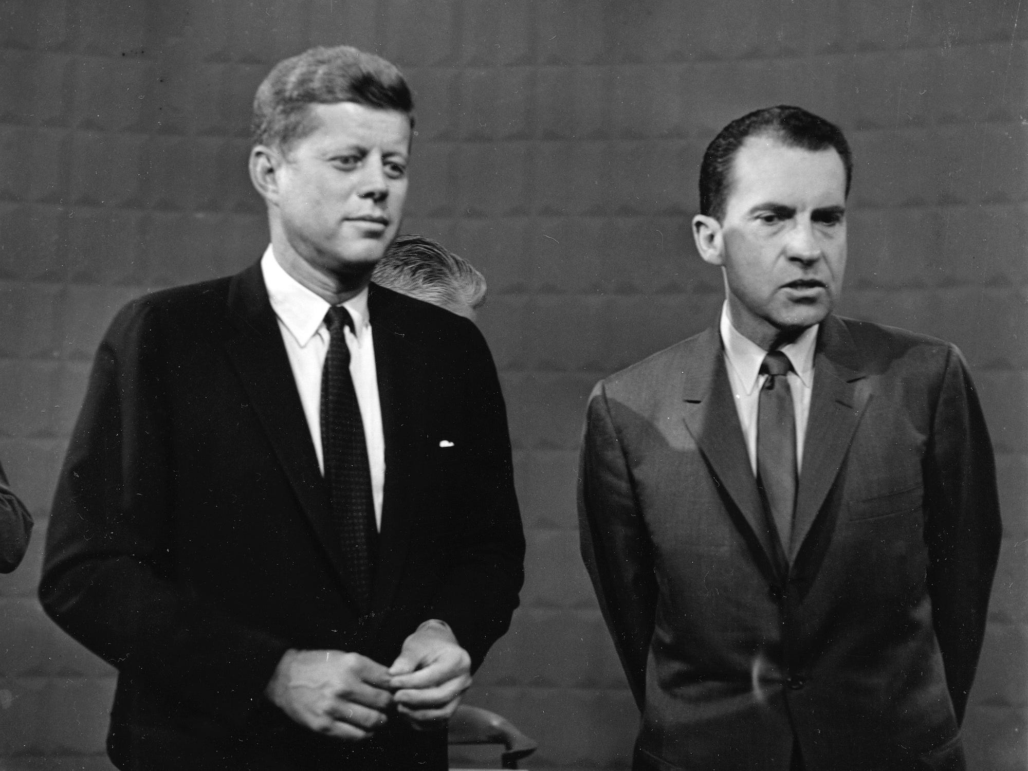 Photo of John F. Kennedy and Richard Nixon taken prior to their first debate at WBBM-TV in Chicago in 1960. Original caption: "(DEB15) CHICAGO, Sept. 26--STARS OF CAMPAIGN DEBATE--Presidential candi­dates Sen. John Kennedy and Vice President Richard Nixon pose tonight following their debate at a Chicago television studio (AP Wirephoto)(rj22310stf)1960"